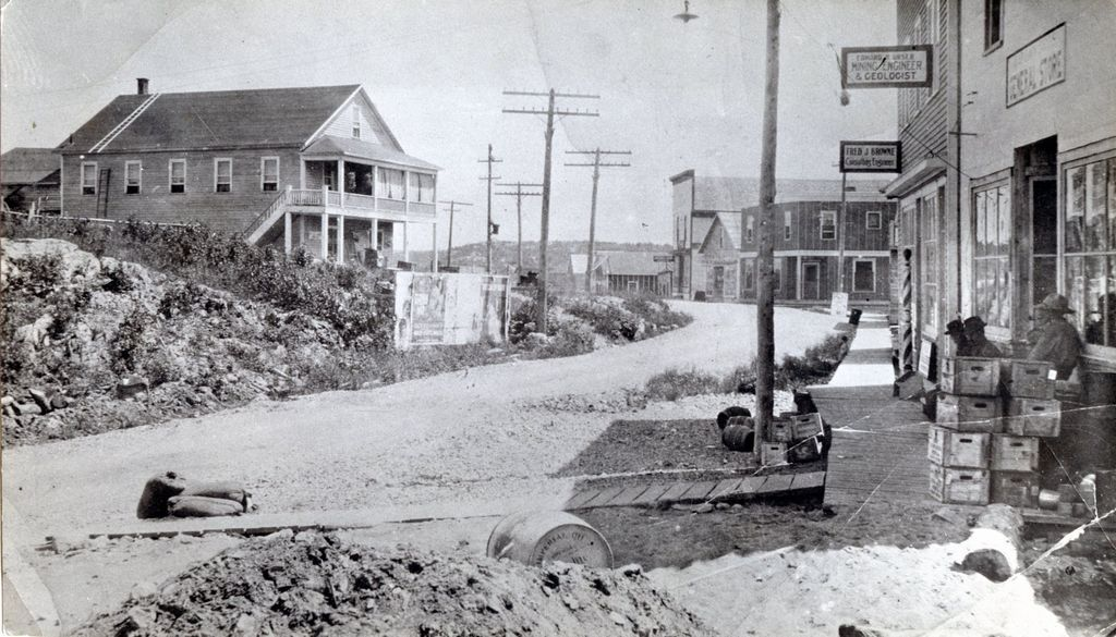 Government Road - Kirkland Lake, Ontario, Canada.